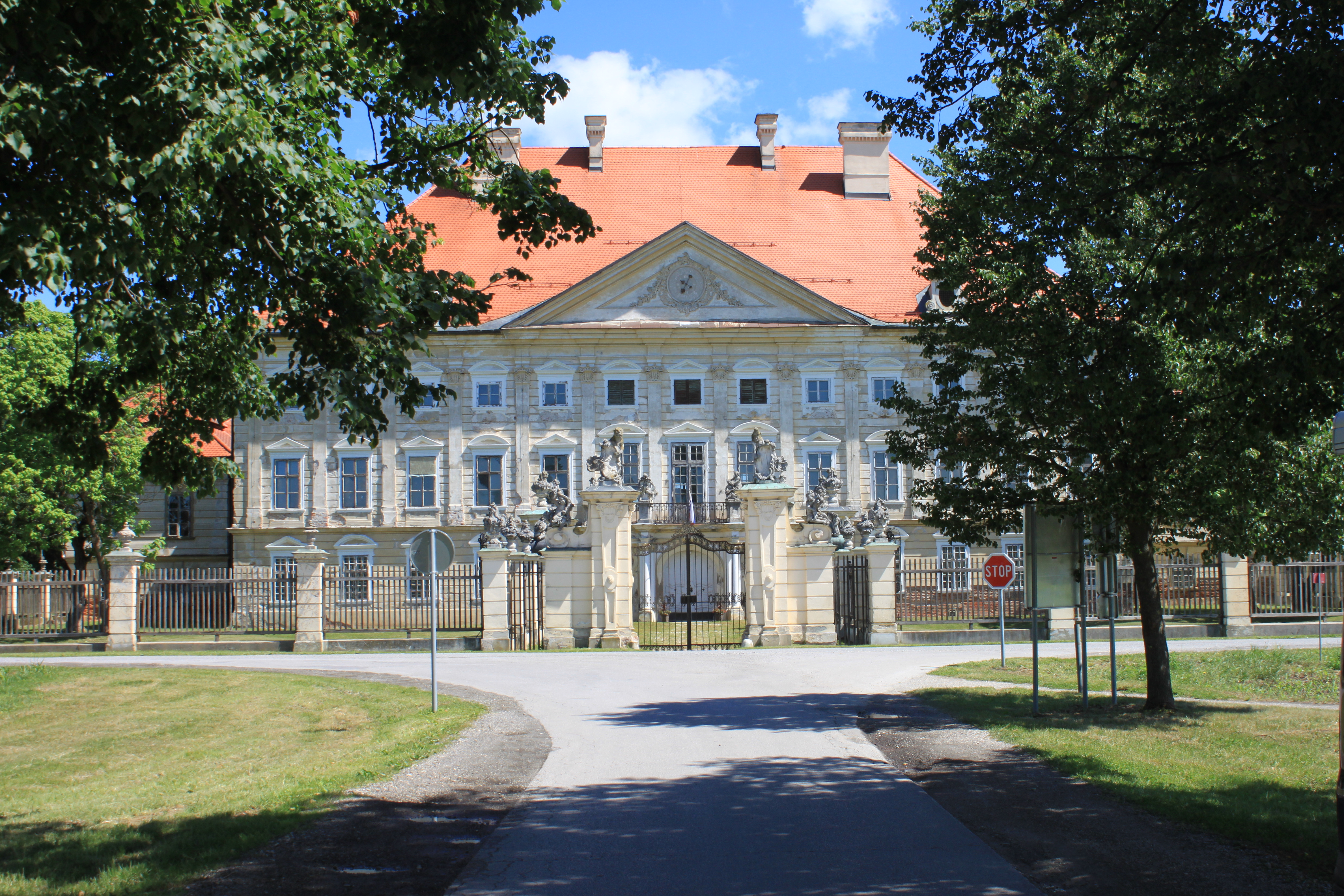 Dornau Mansion (Dornava); Front view; 1753.